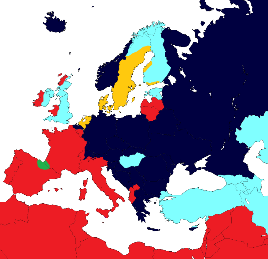 Gender classification of nouns in language in and around Europe. No gender Common/neuter Feminine/masculine Animate/inanimate Masculine/feminine/neuter